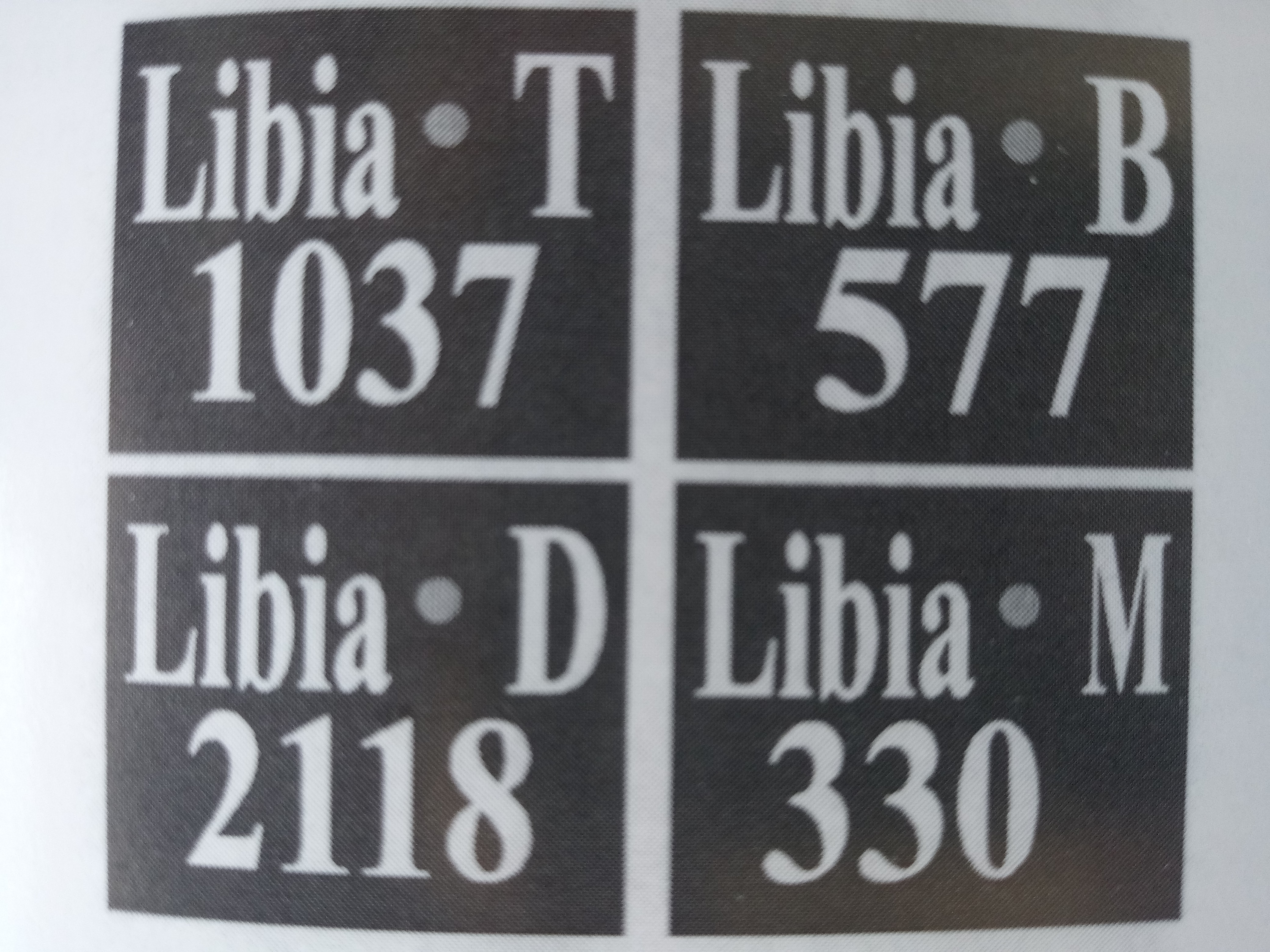 Image represents four historical rear plates. Libia T = Tripoli, Libia B = Bengasi, Libia D = Derna, Libia M = Misurata. On the upper line, between "Libia" and province letter, appeared the fascist emblem